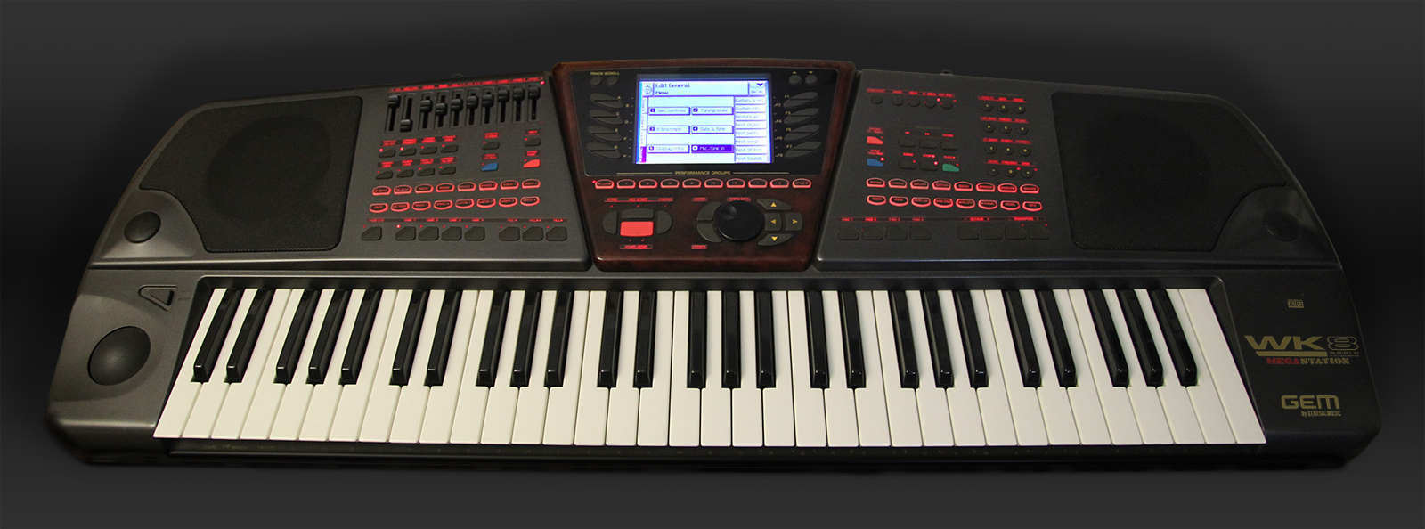 GEM WK8 Mega Station